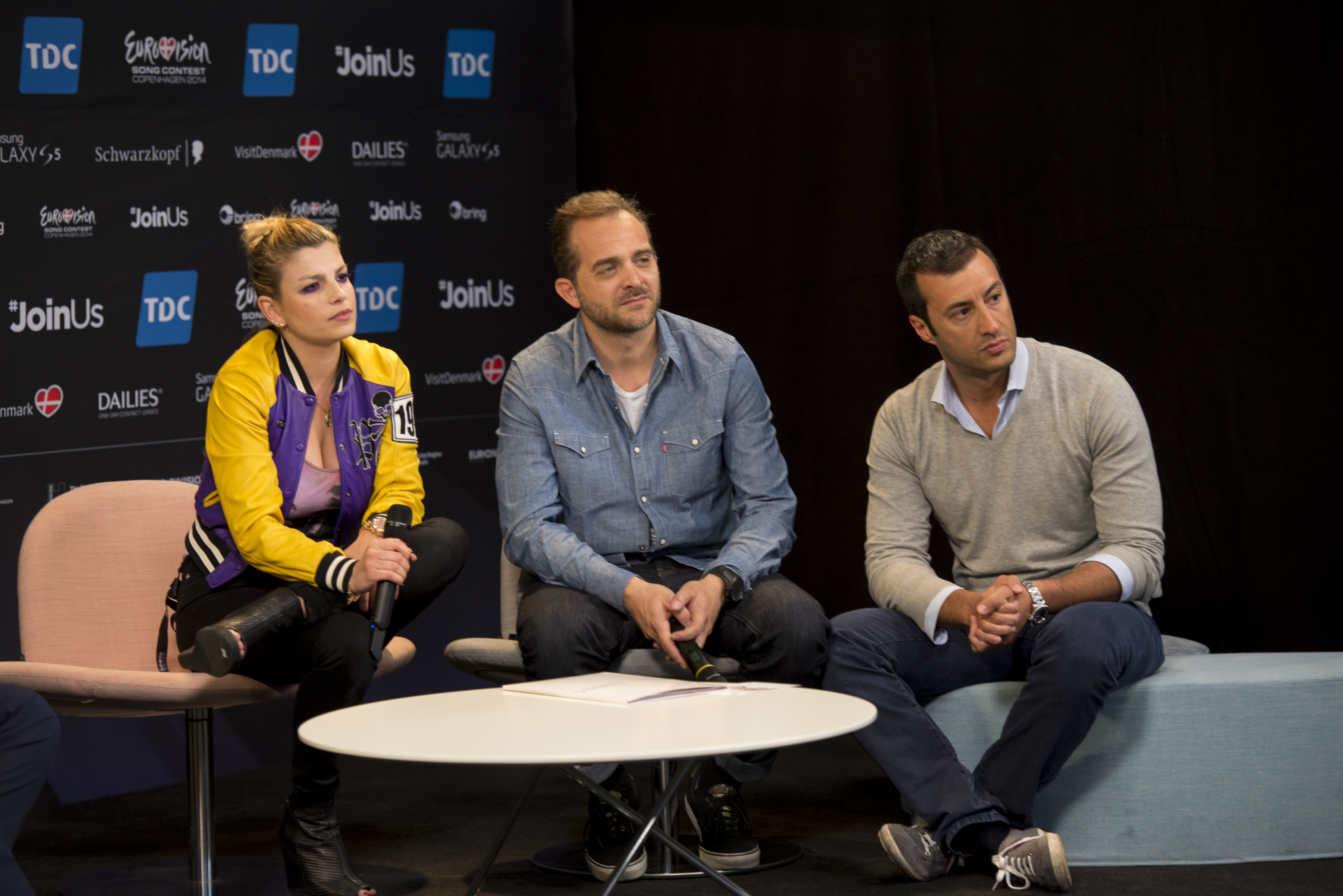 Emma Marrone at a Meet & Greet during the Eurovision Song Contest 2014 Copenhagen. (Help translate this text)